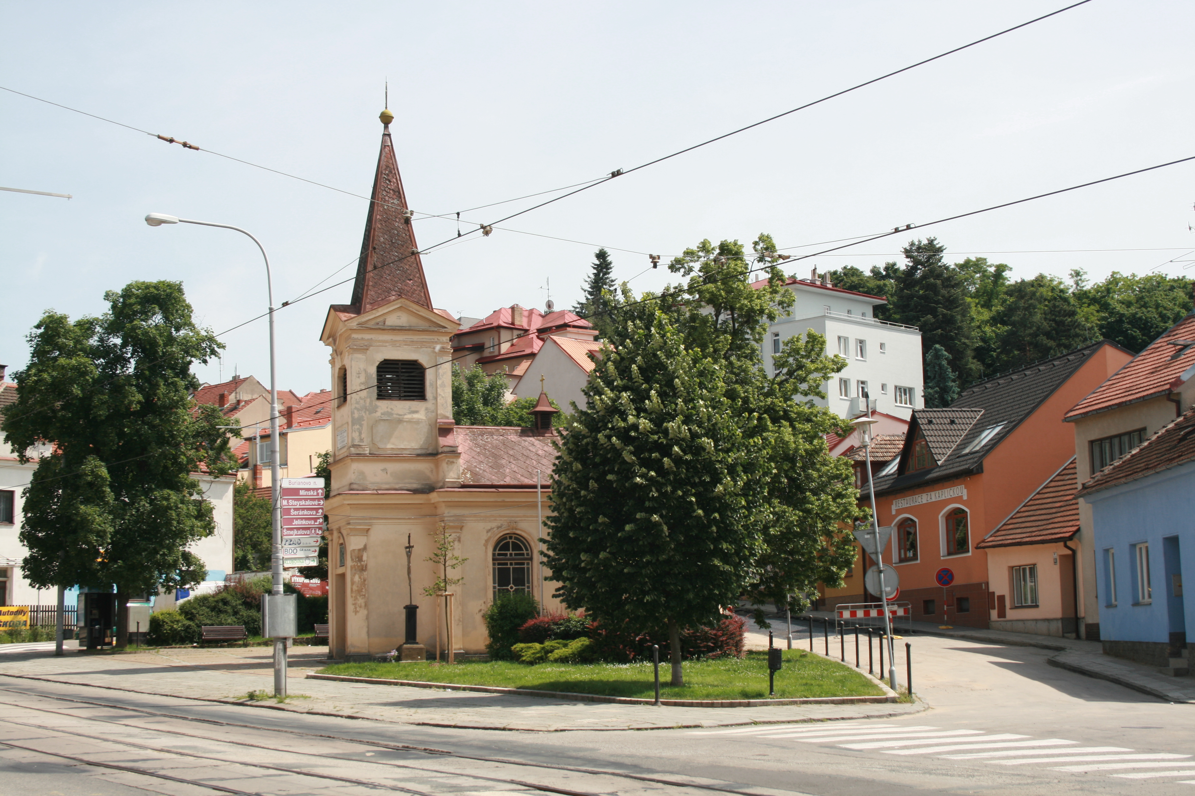 Burianovo square in Brno-Žabovřesky, Czech Republic.